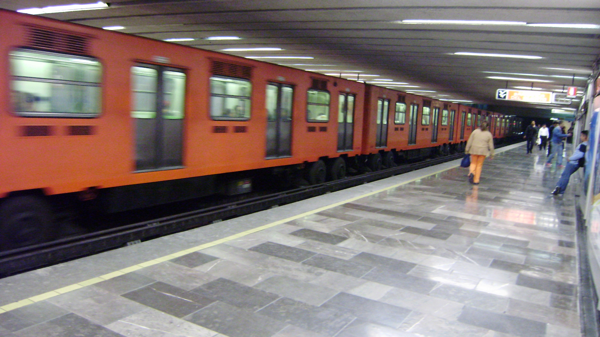 Tacuba Station of Mexico City Subway.